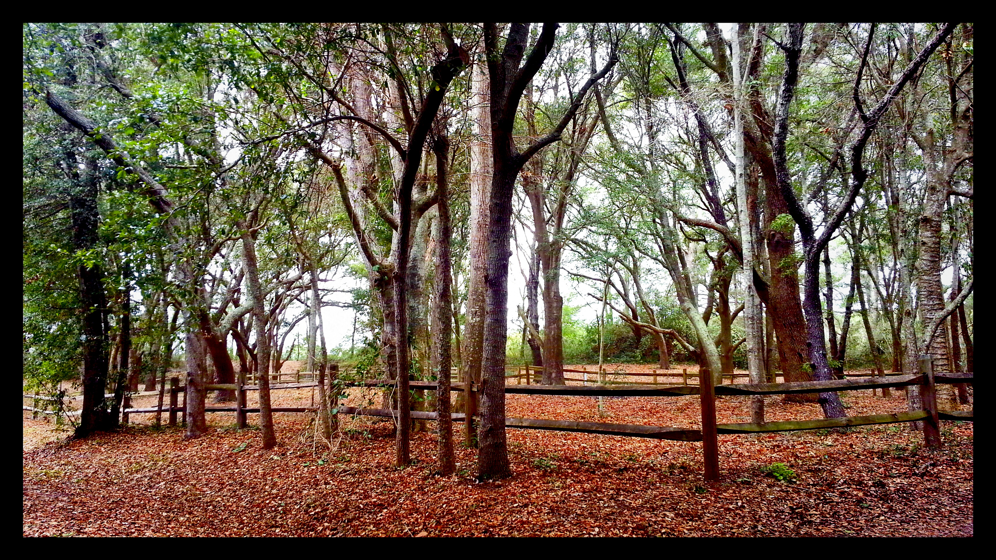 From the historical site placard: Battle of Secessionville. The village, renamed Secessionville by early 1861, gave its name to the battle fought nearby on June 16, 1862, in which Confederate repulsed numerous Federal assaults on an earthwork built across from the peninsula and crush Union hopes for an early occupation of Charleston. A water battery overlooking the marsh to the northeast was one of the several earthworks built nearby in 1862 and 1863.